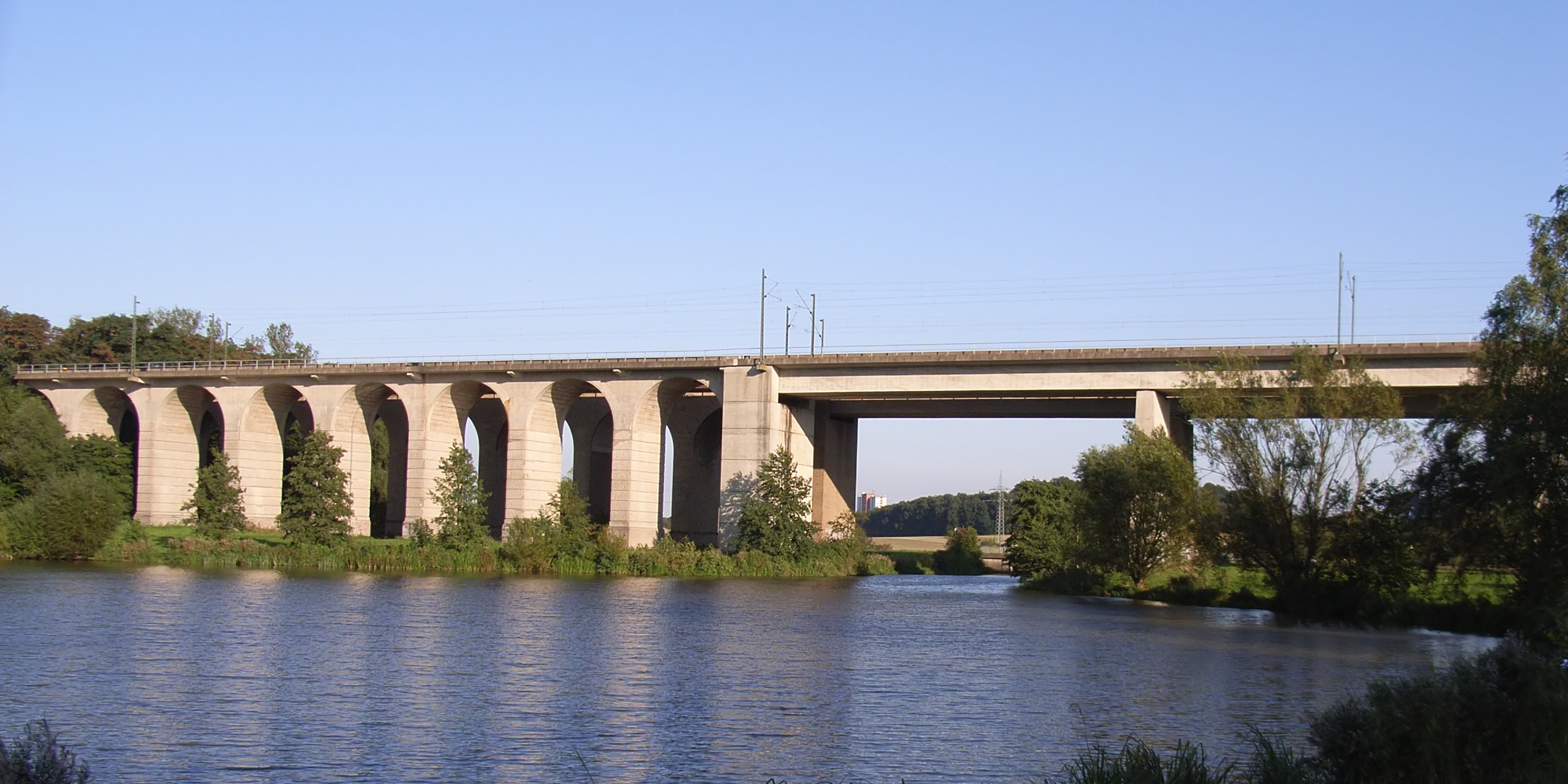 Bielefeld, Germany: Obersee with the viaduct of Schildesche.